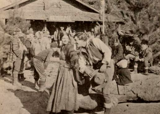 Still from the American drama film Paid in Advance (1919) with Dorothy Phillips, on page 36 of the July 12, 1919 Exhibitors Herald.